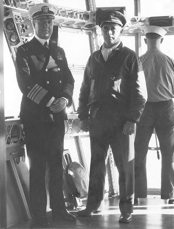 Admiral David F. Sellers, USN (left), Commander in Chief, U.S. Fleet, In the control car of USS Macon (ZRS-5) on 9 November 1934, during his visit to the airship for a flight in the vicinity of San Francisco, California. Standing with him is Macon's Commanding Officer, Commander Alger H. Dresel, USN.